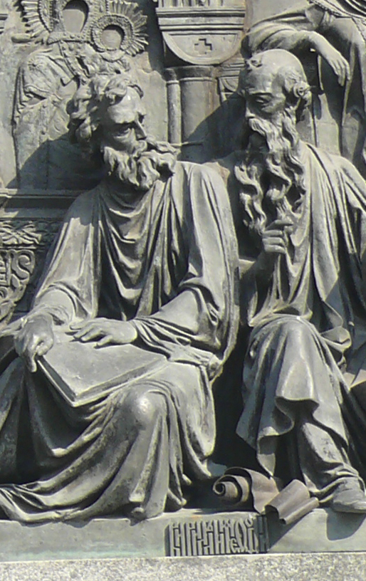 Saints Cyril and Methodius on the Monument "Millennuim of Russia" in Veliky Novgorod